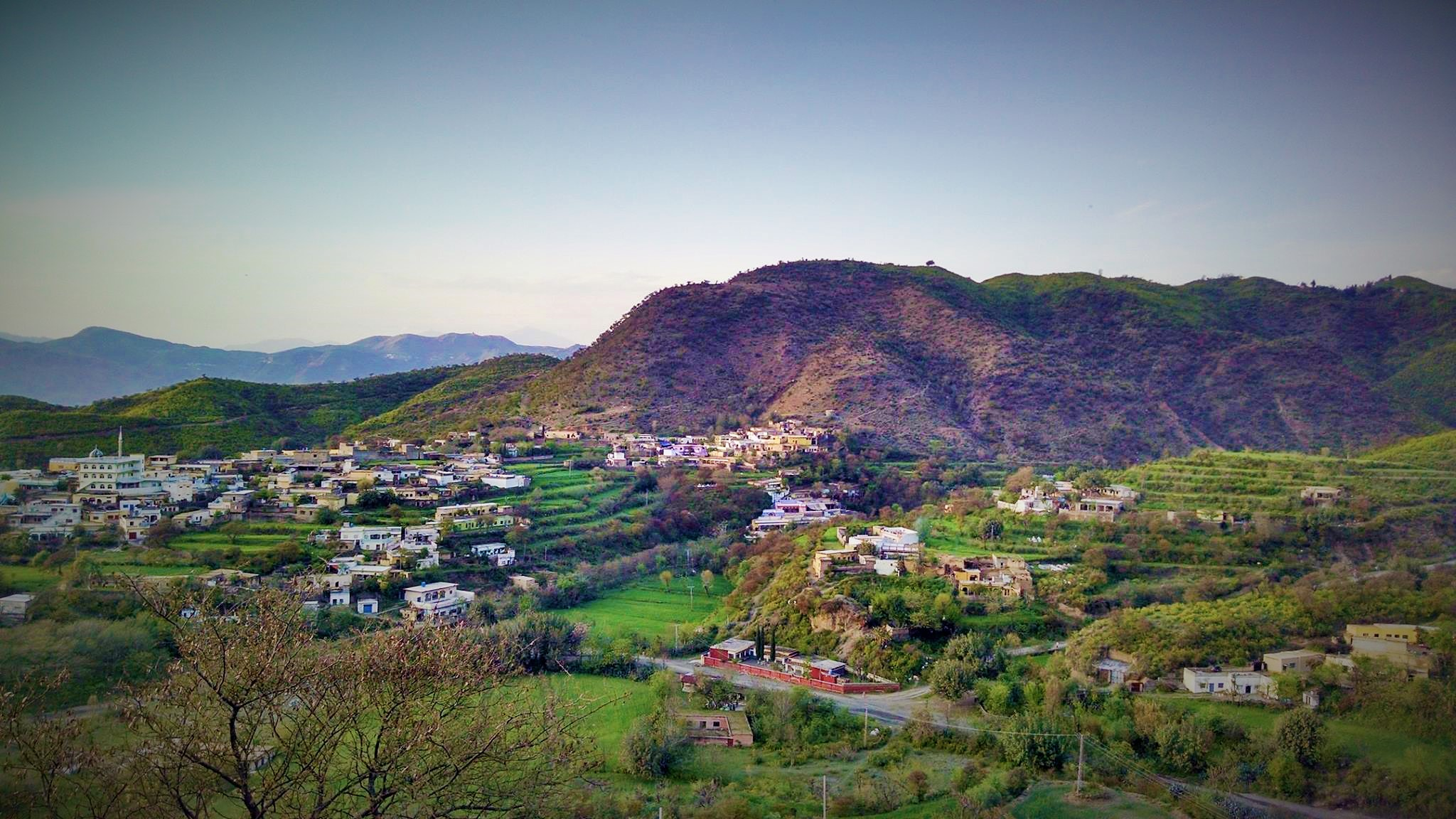 The Stunning View Of Pharhari.